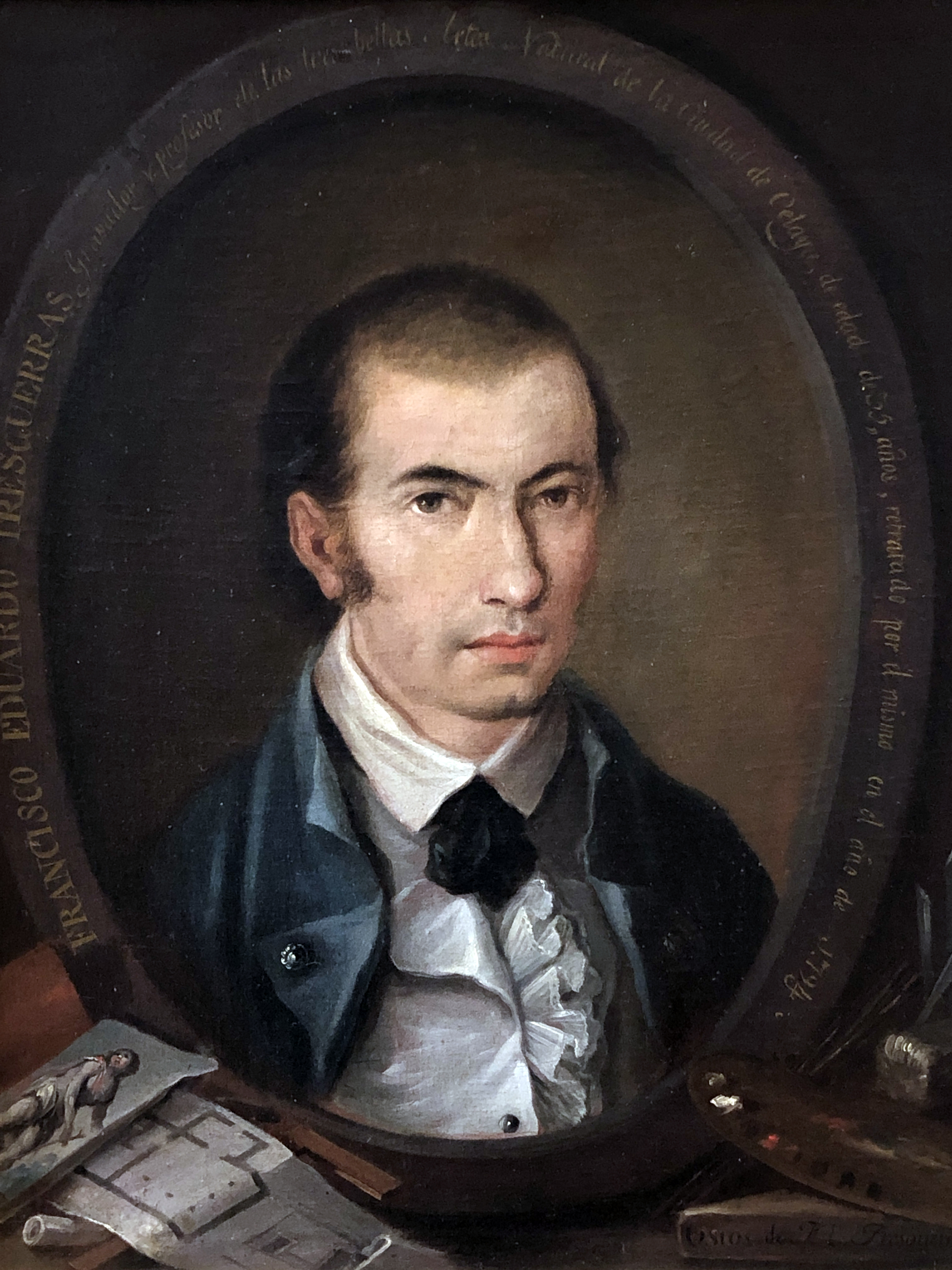 Autorretrato Francisco Eduardo Tresguerras, Colección Museo Nacional de Arte, Ciudad de México.